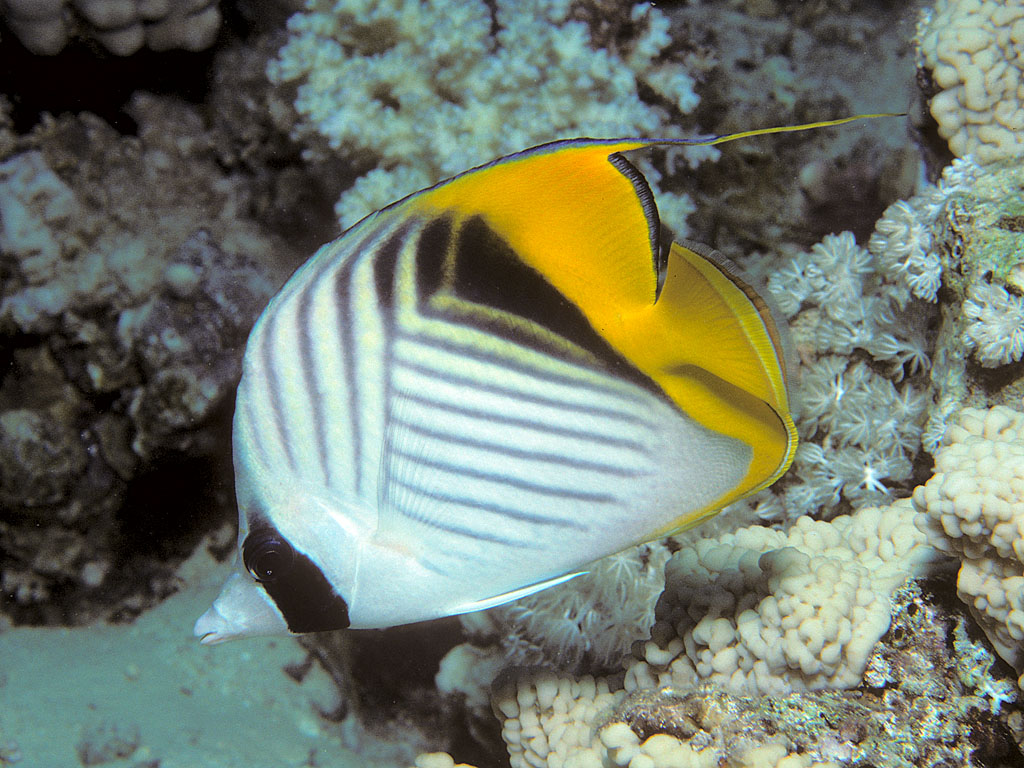 Chaetodon auriga, Threadfin butterflyfish. Underwater photograph, Sharm El Sheik, Egypt, Africa (Red Sea).